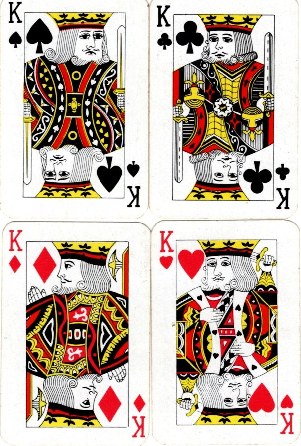 Kings in Deck of Cards.